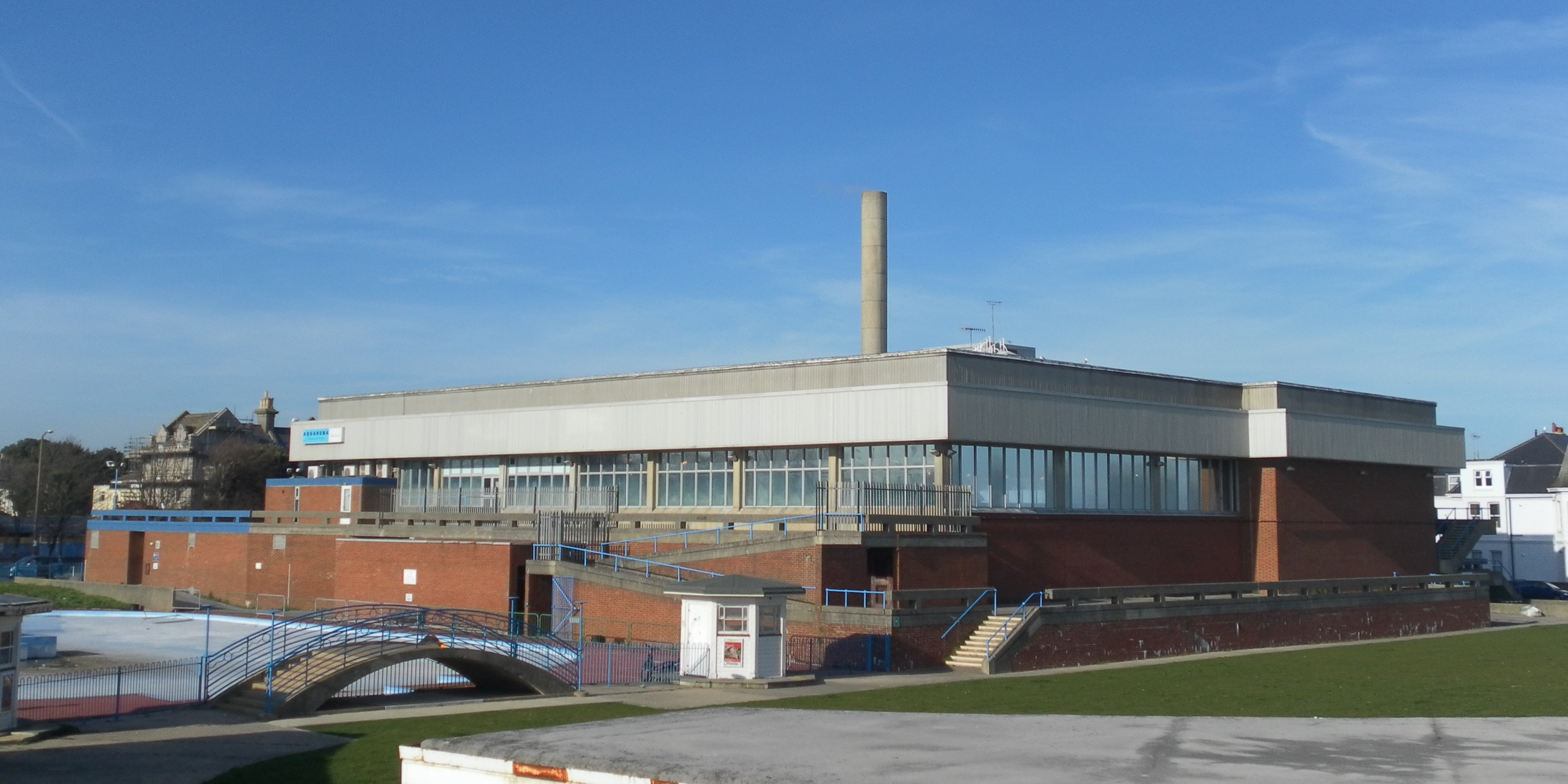 The former Splash Point (left) and Aquarena (right), Brighton Road, Worthing, West Sussex, England. An outdoor pool and leisure centre complex. The Aquarena building replaced earlier facilities but was itself demolished the year after this and replaced with a new, larger Splash Point facility. The outdoor pool does not survive.